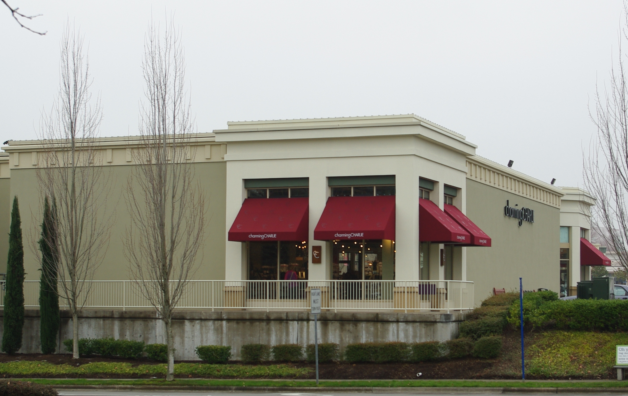 Charming Charlie at The Streets of Tanasbourne in Hillsboro, Oregon.